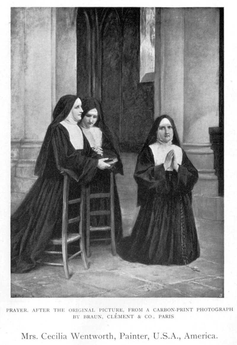 1905 print after page of Women painters of the world, from the time of Caterina Vigri, 1413-1463, to Rosa Bonheur and the present day, by Walter Shaw Sparrow, The Art and Life Library, Hodder & Stoughton, 27 Paternoster Row, London